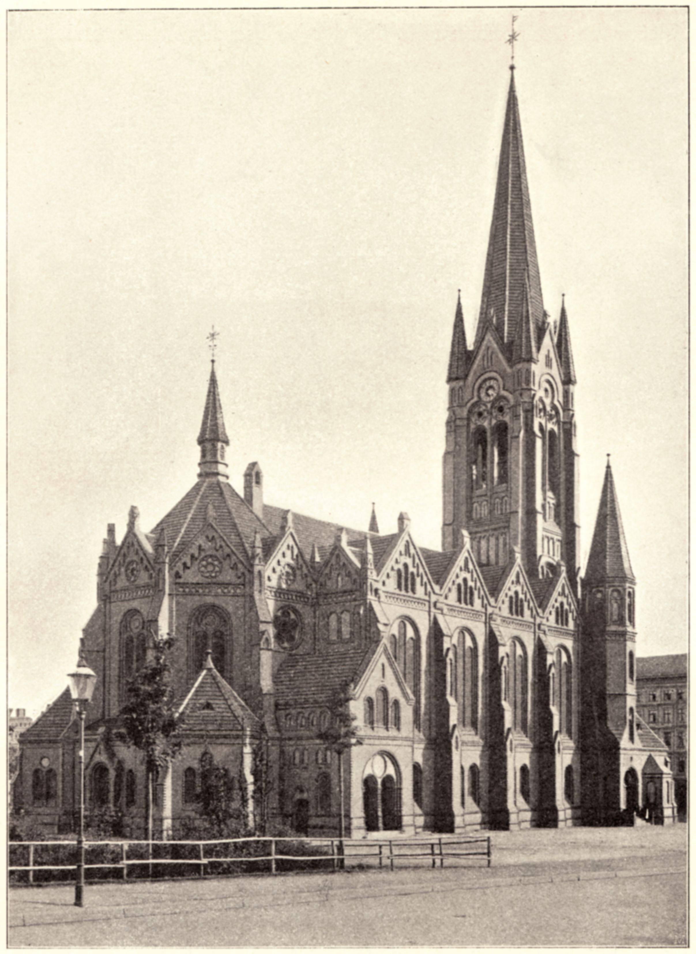 Berlin - Auferstehungskirche, view around 1896